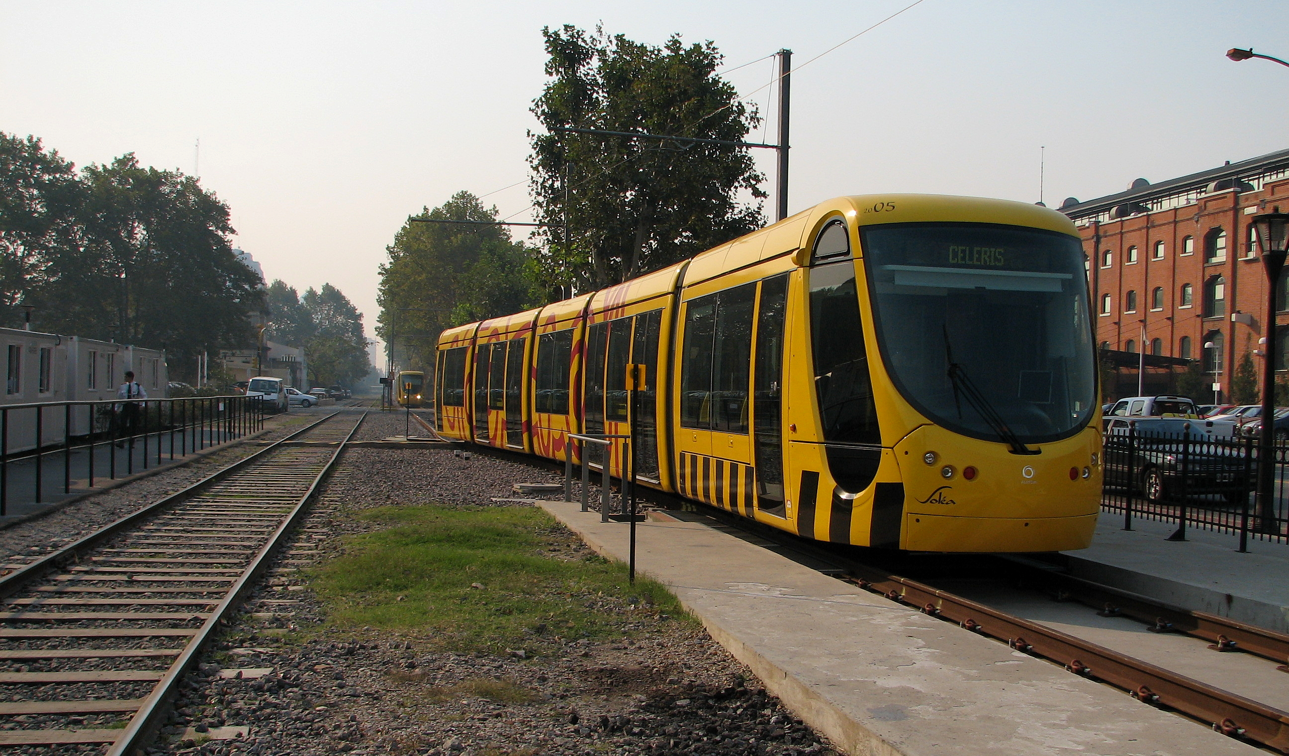 Celeris Tramway in Puerto Madero, Buenos Aires, Argentina.